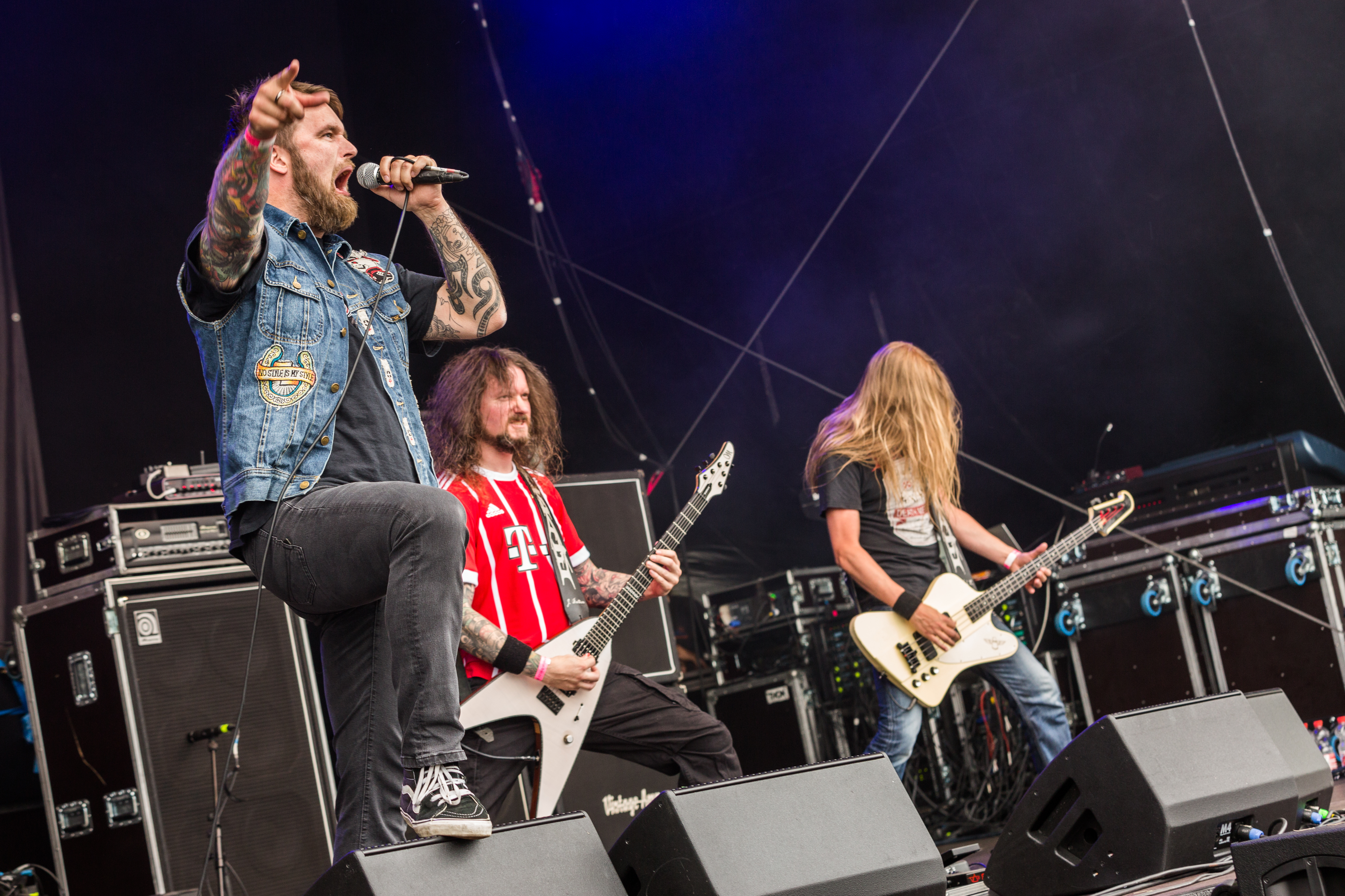 The Danish death metal band Illdisposed at the Metal Frenzy 2017 in Gardelegen/Germany.